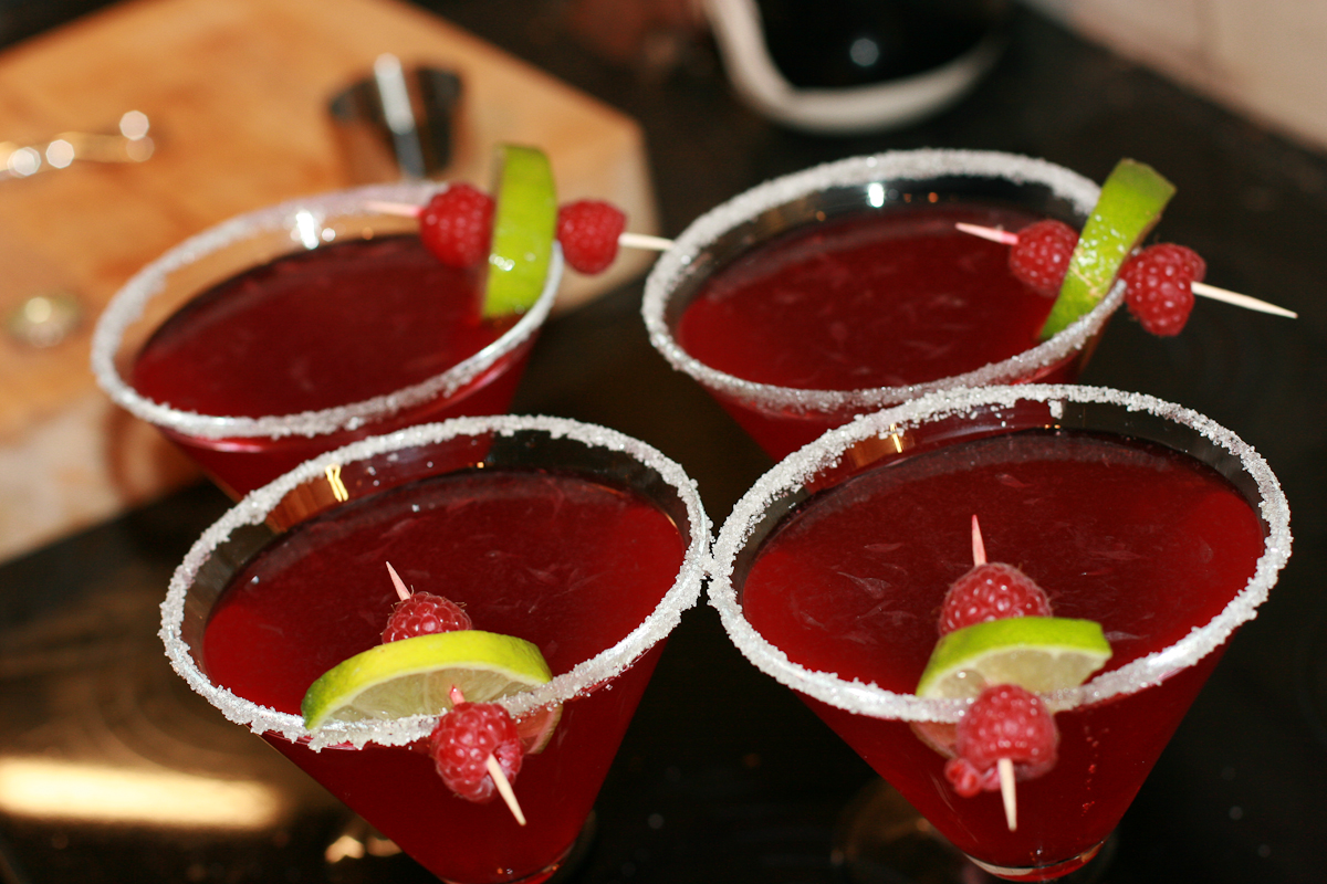 Cocktail Party-3